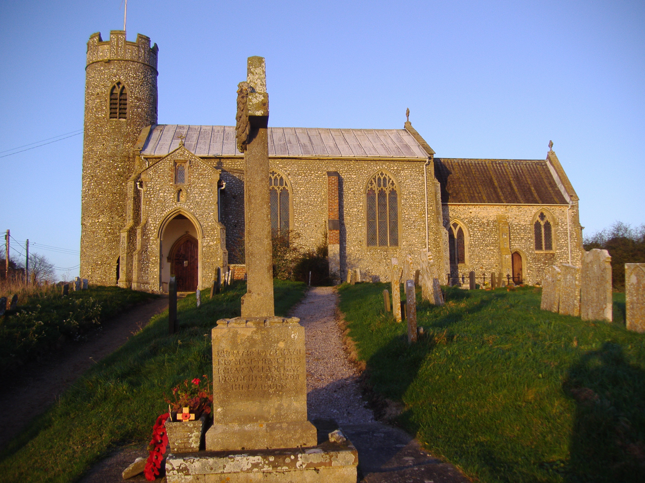 A Digital Photograph of the Parish Church and War memorial at Aylmerton